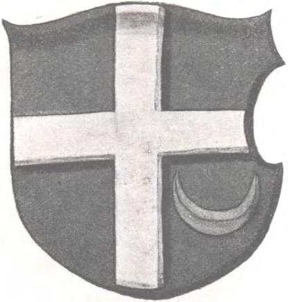 Coat of arms Tarnawa from Stemmata polonica